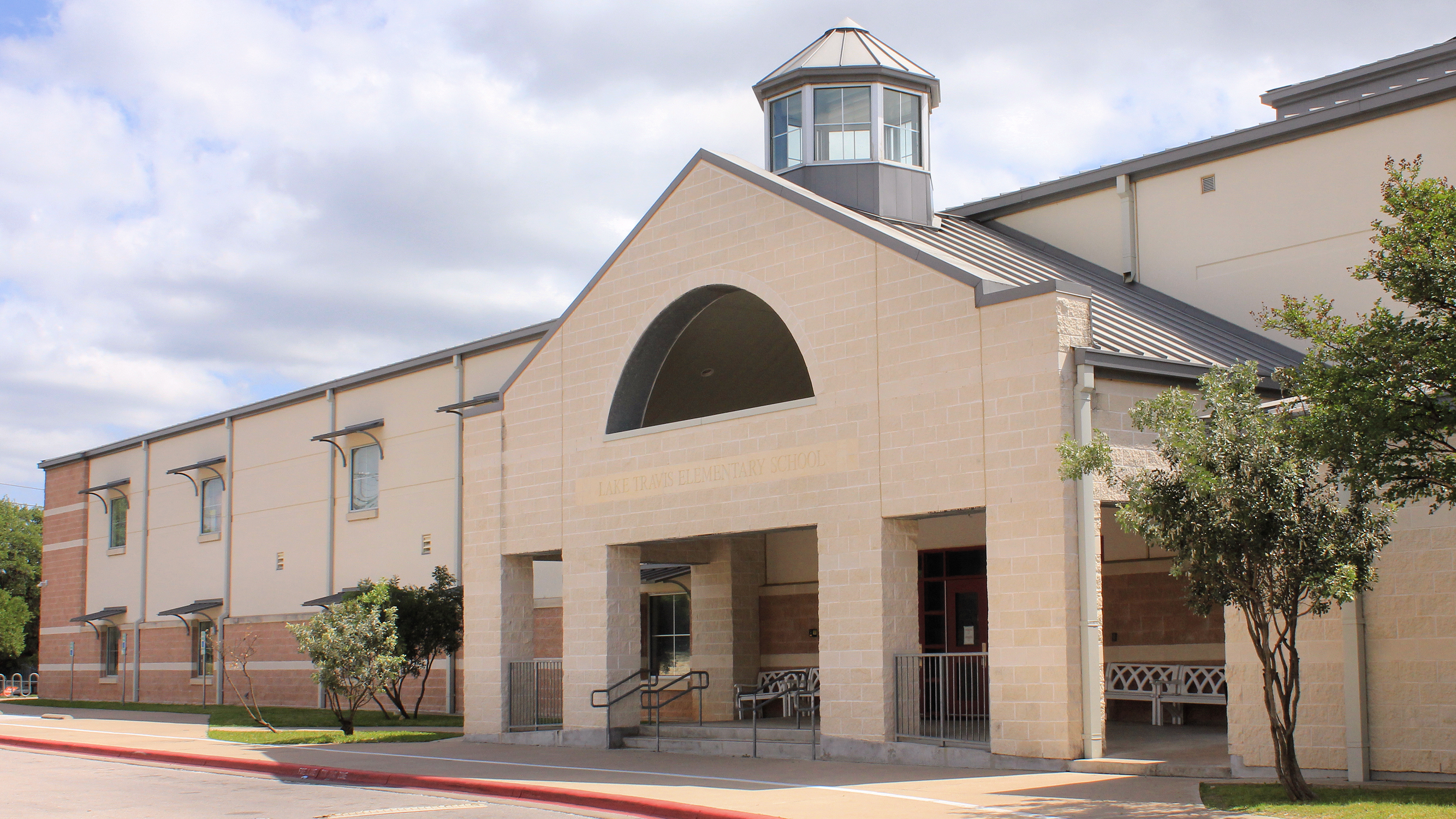 Lake Travis Elementary School in Lake Travis Independent School District, Lakeway, Texas, United States.